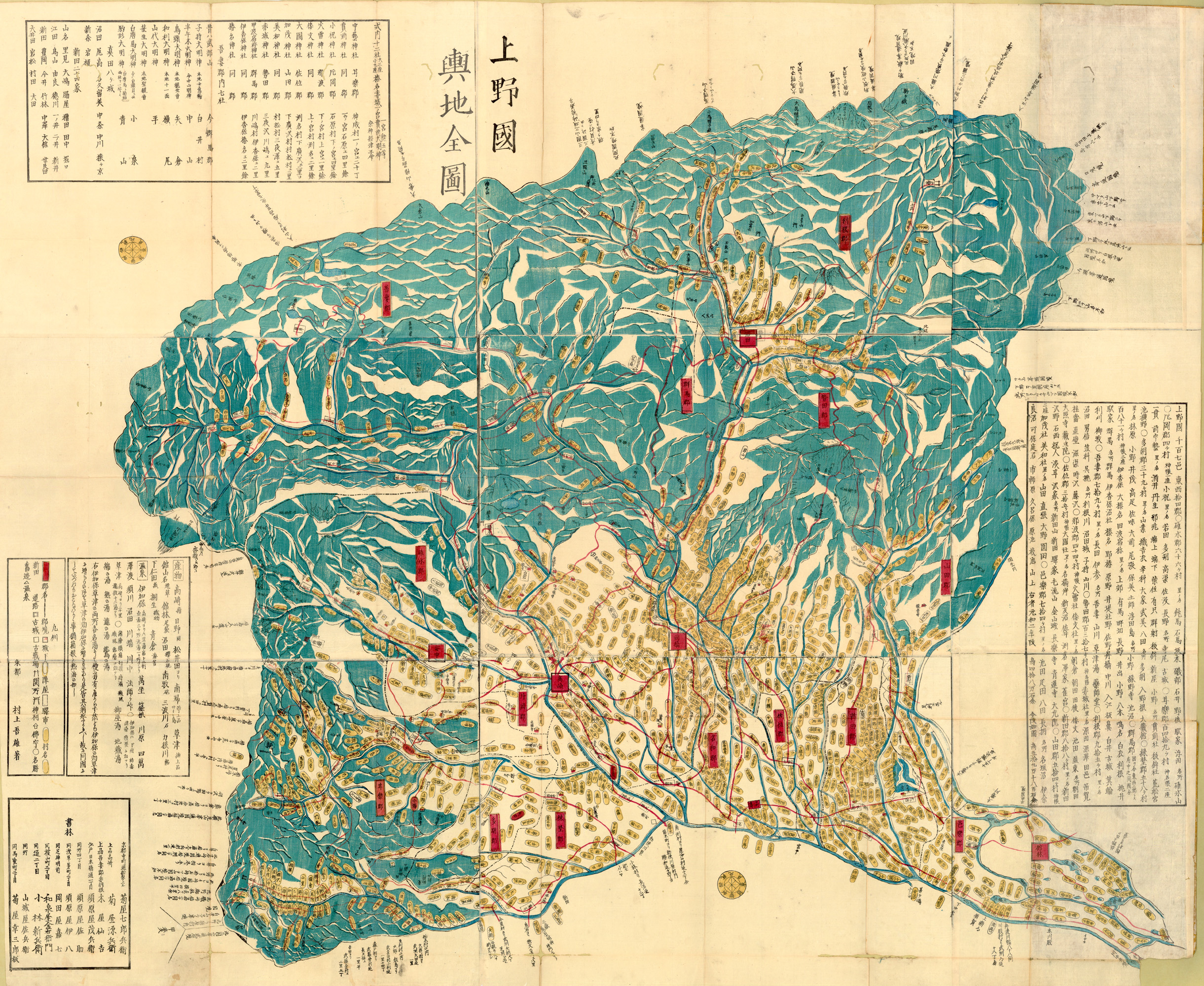 No known copyright restrictions. Please credit UBC Library as the image source. For more information, see Alternative Title: Kōzuke no Kuni yochi zenzu Creator: Murakami, Goyū, active 19th century Date Issued: 1840 Source: University of British Columbia Library - Rare Books and Special Collections. Japanese Maps of the Tokugawa Era. Permanent URL